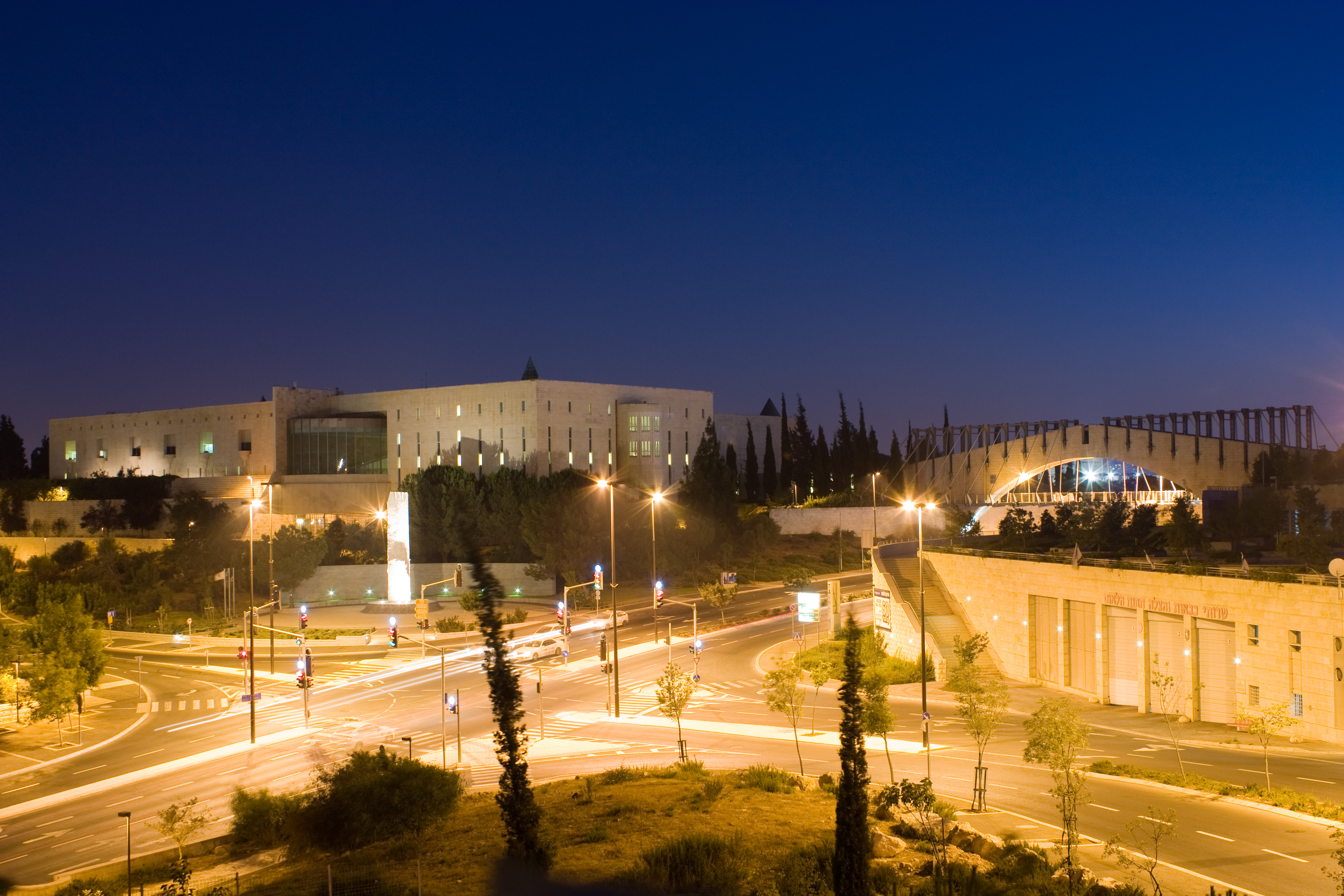 Nightshot of the Israeli supreme court building in Jerusalem